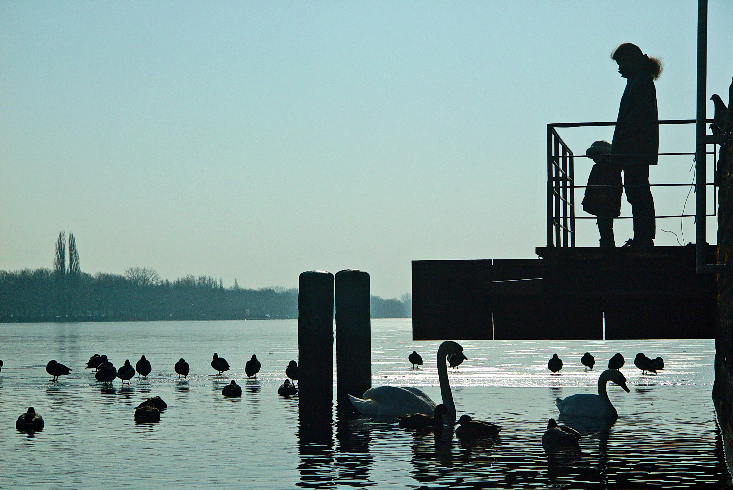 Mute Swans Are Always White (Hannover, 2003)